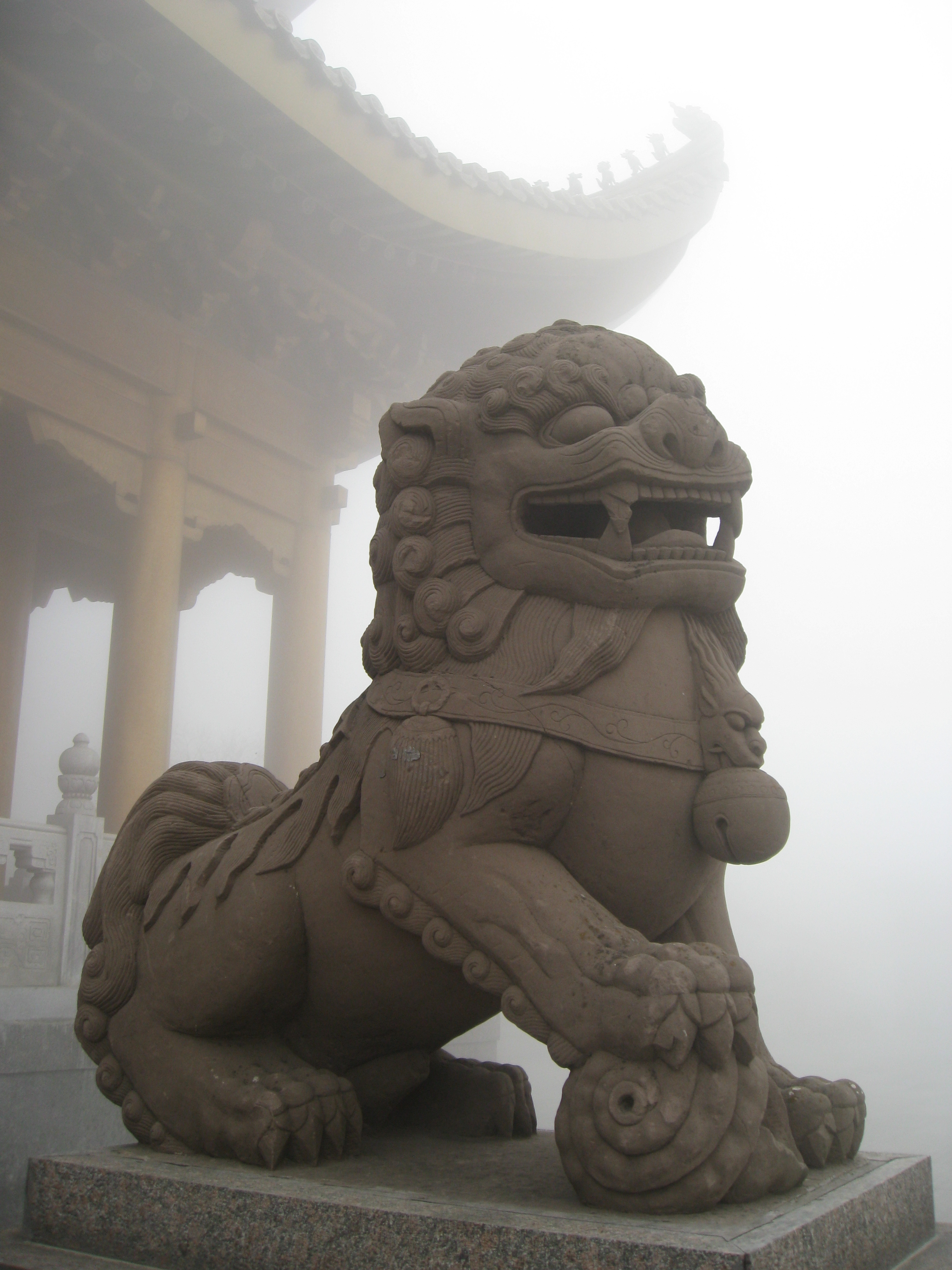 Stone statue of a Chinese guardian lion at Mount Emei in China